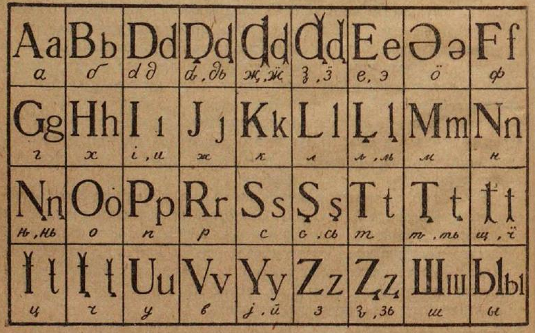 Komi-Udmurt latin alphabet project (1930)